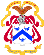 U.S. Army Command and General Staff College Device[1] .